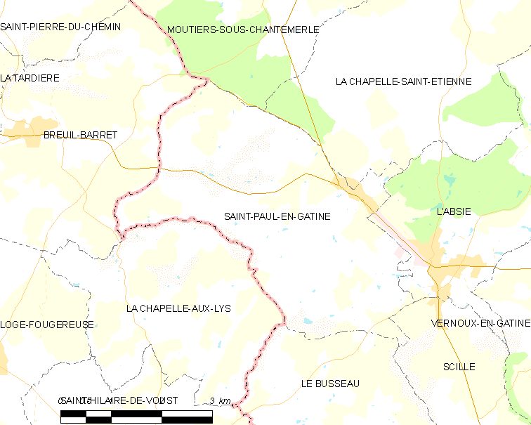 Map of French municipality Saint-Paul-en-Gâtine